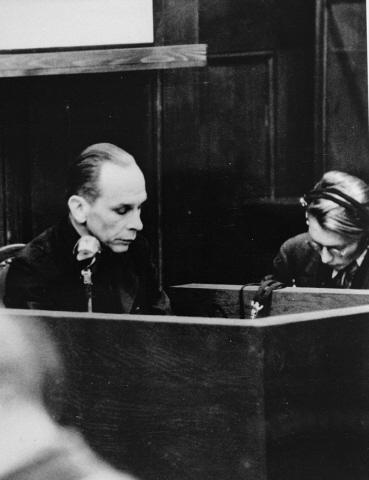 SS-Officer Otto Schwarzenberger testifies in his own defense during the RuSHA-Trial in Nuremberg. This photograph was taken by US Army photographers on behalf of the Office of Chief of Counsel for War Crimes (OCCWC) during the trial, which lasted from July 1947 unitl March 1948. The USHMM-Website wrongly states that copyright on this photograph belongs to the USHMM itself, which is merley hosting the picture taken from the NARA, which keeps the photographs and original prints. It should correctly state PD-USGov-Military-Army.